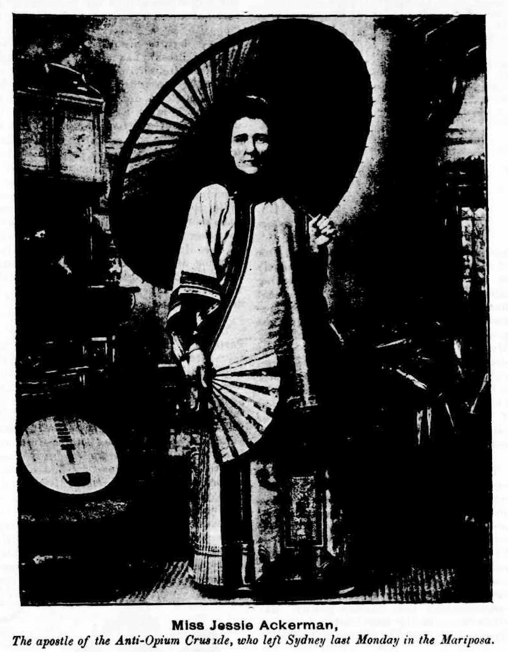 Jessie Ackermann (1857–1951) was a social reformer, feminist, journalist, writer and traveller. She was the second round-the-world missionary appointed by the World’s Woman’s Christian Temperance Union (WWCTU), becoming in 1891 the inaugural president of the federated Australasian Woman's Christian Temperance Union (WCTU)